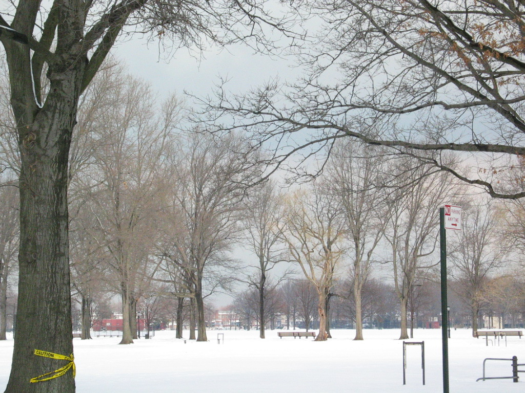 Marine Park, Brooklyn ... the park itself